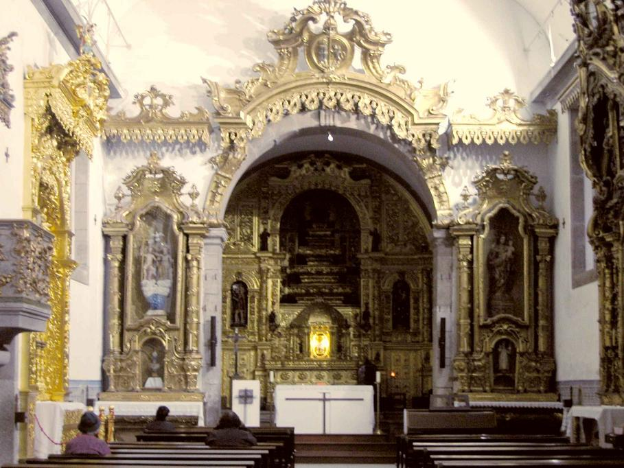 Church of Rio Tinto - Altar - Gondomar - Portugal